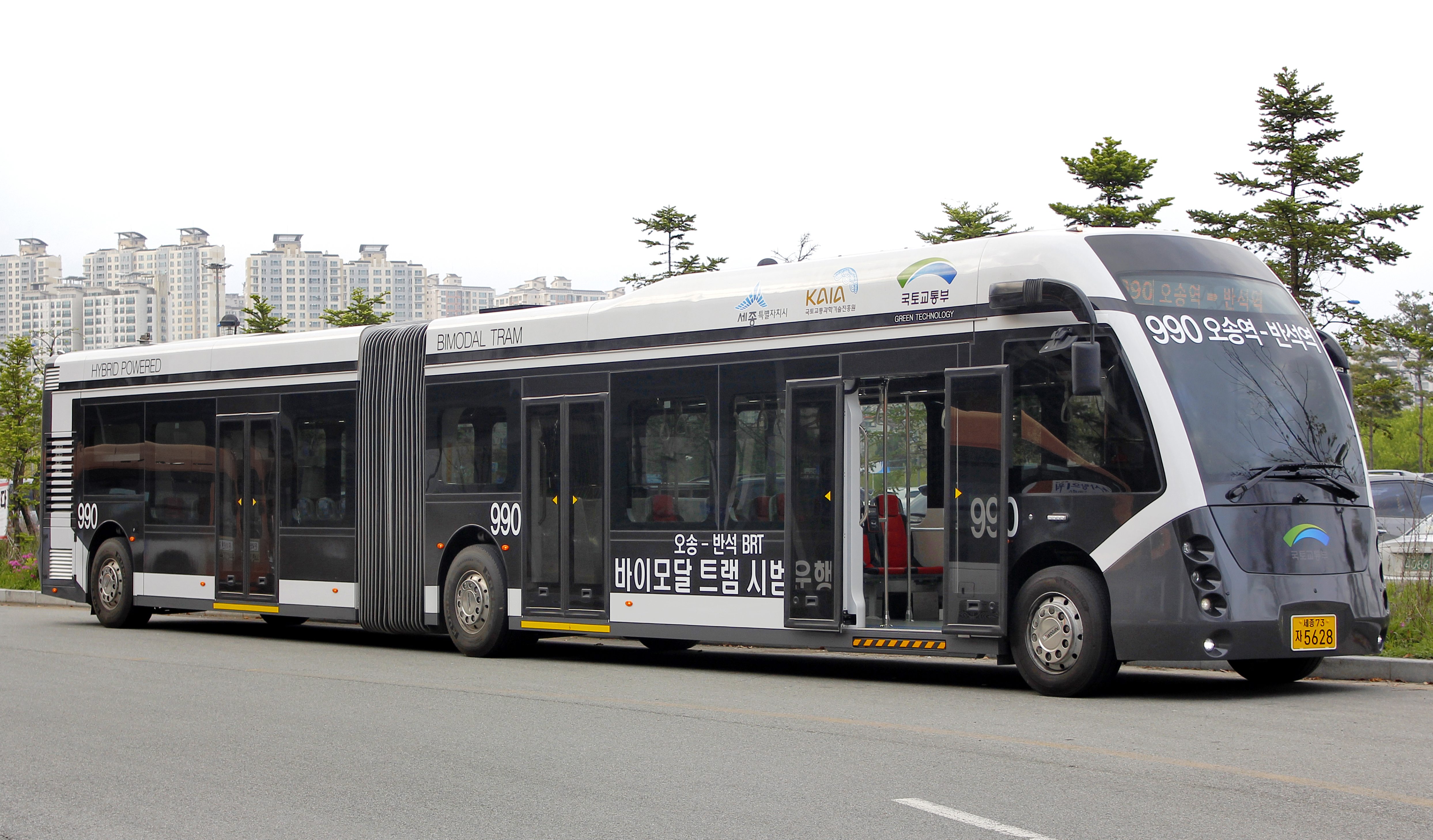 Test run of KRRI Bimodal Tram (APTS Phileas) in Sejong, South Korea.